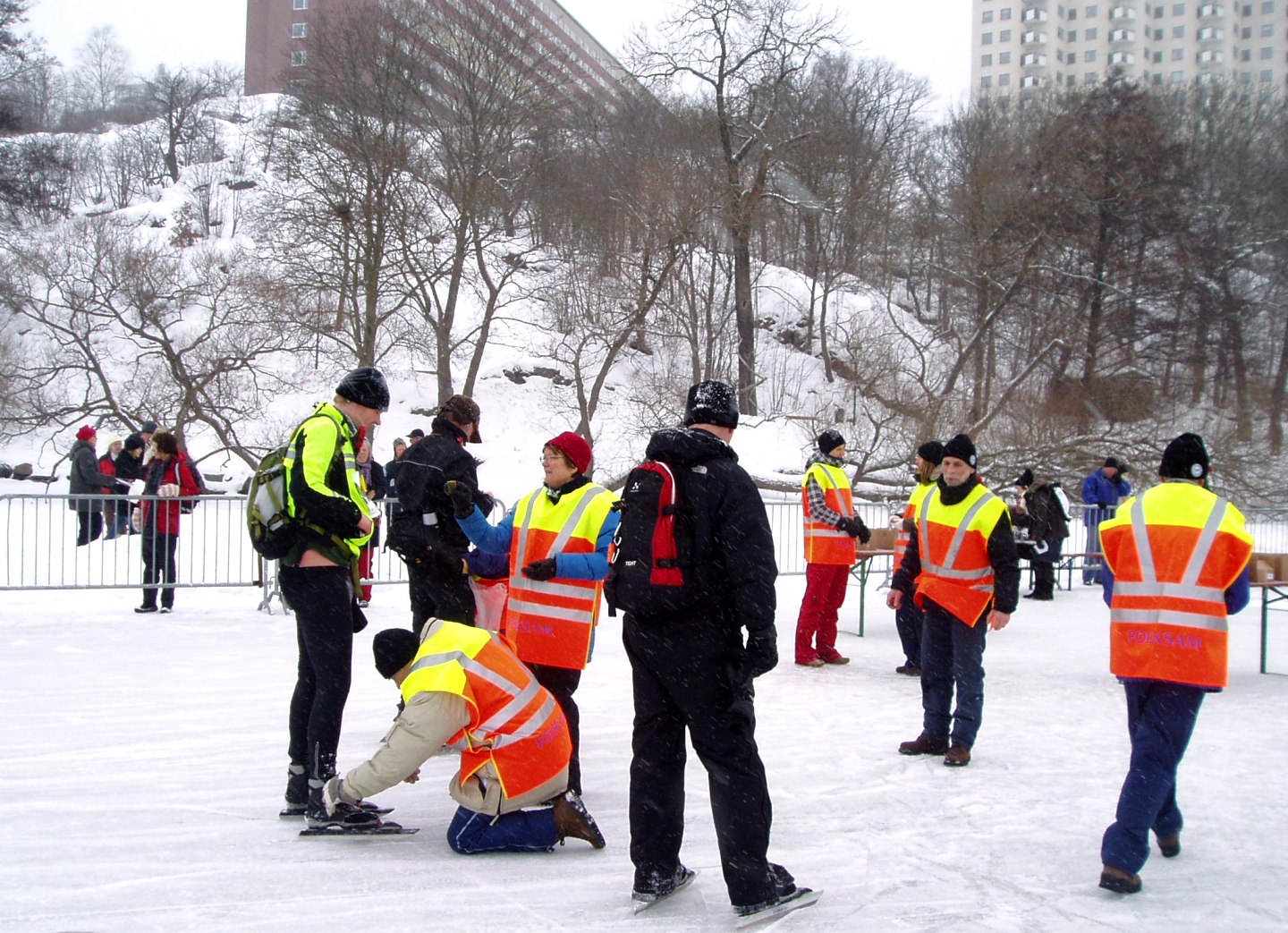 Vikingarännet (The Viking Run), long distance ice skating, 14 February 2010